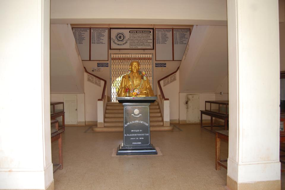 Accet College Founder Statue